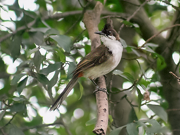 Red-whiskered Bulbul Pycnonotus jocosus in Kolkata, West Bengal, India.